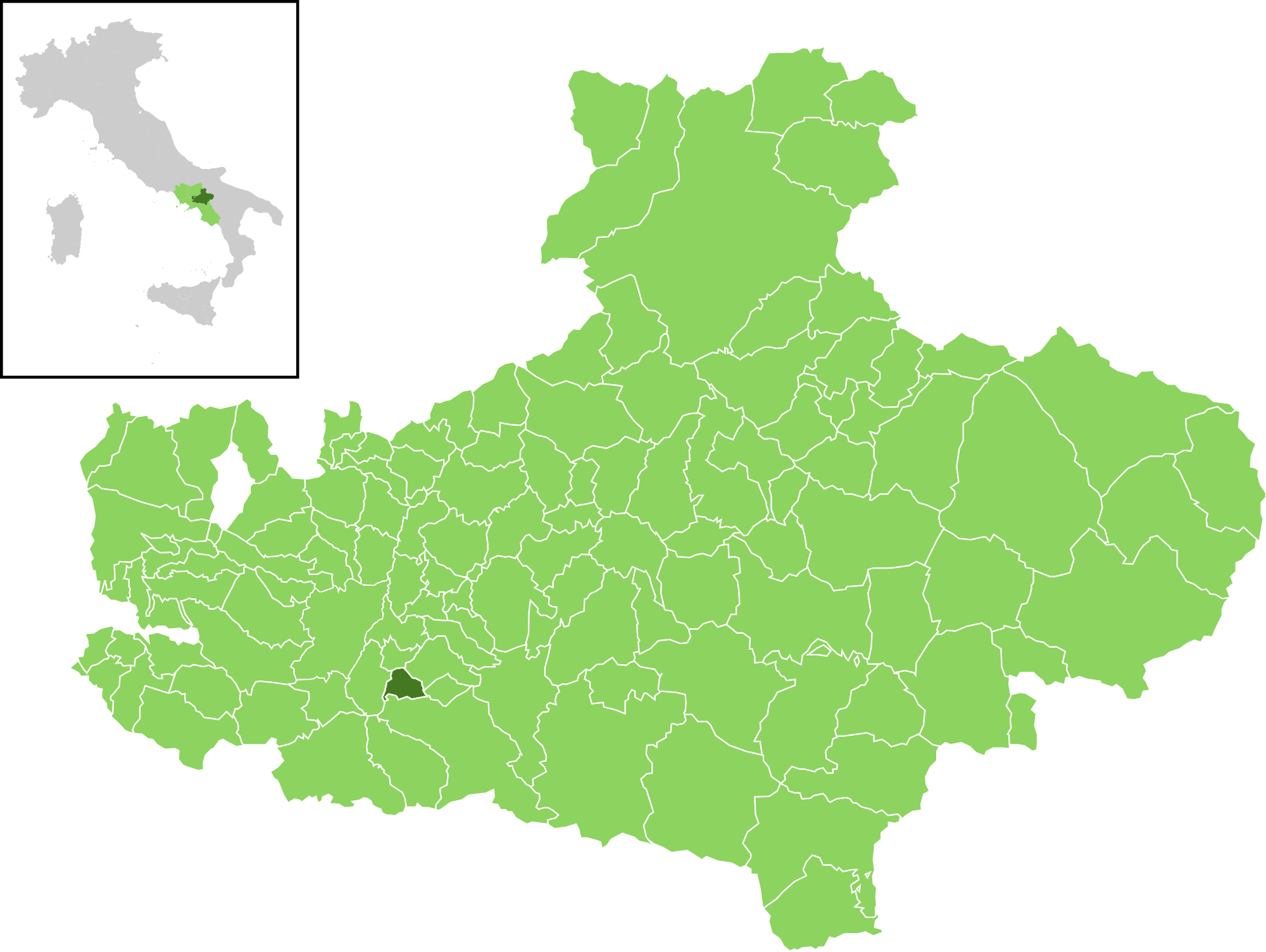 Position of the municipality of San Michele di Serino in the Province of Avellino.